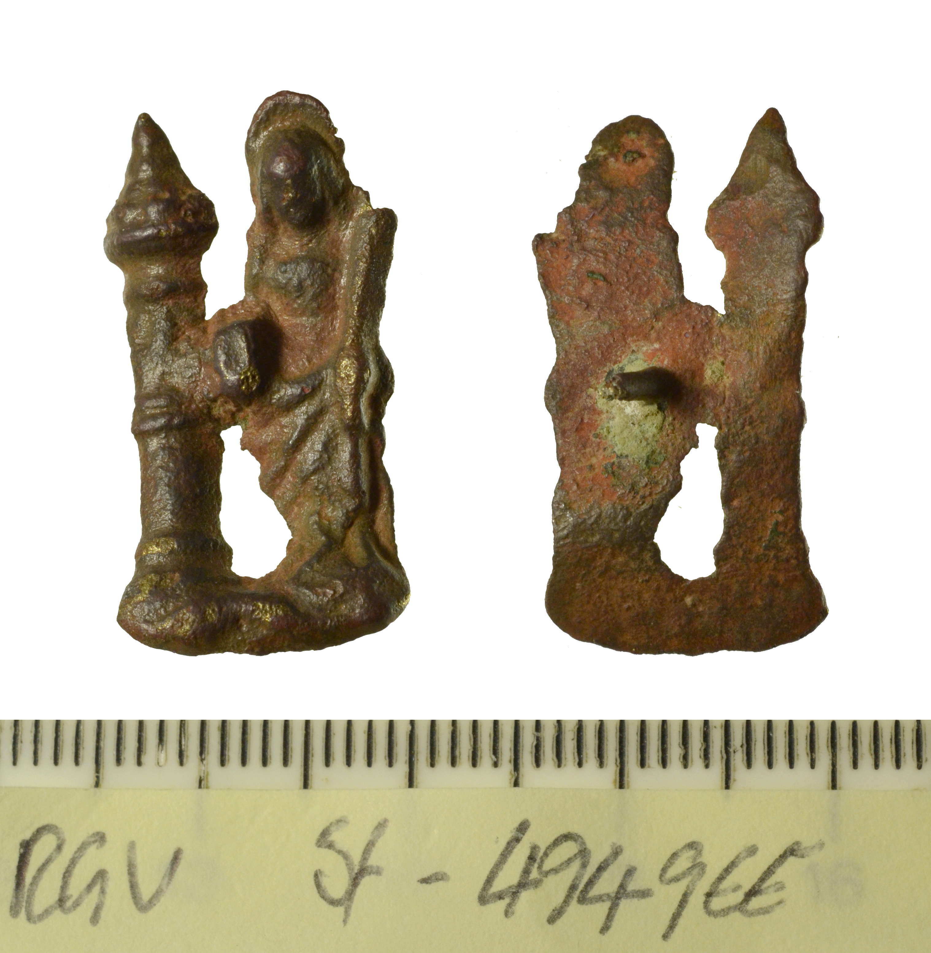 Pilgrim badge